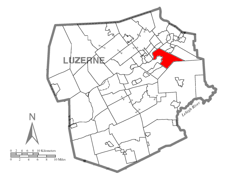 Map of Luzerne County, Pennsylvania higlighting Plains Township